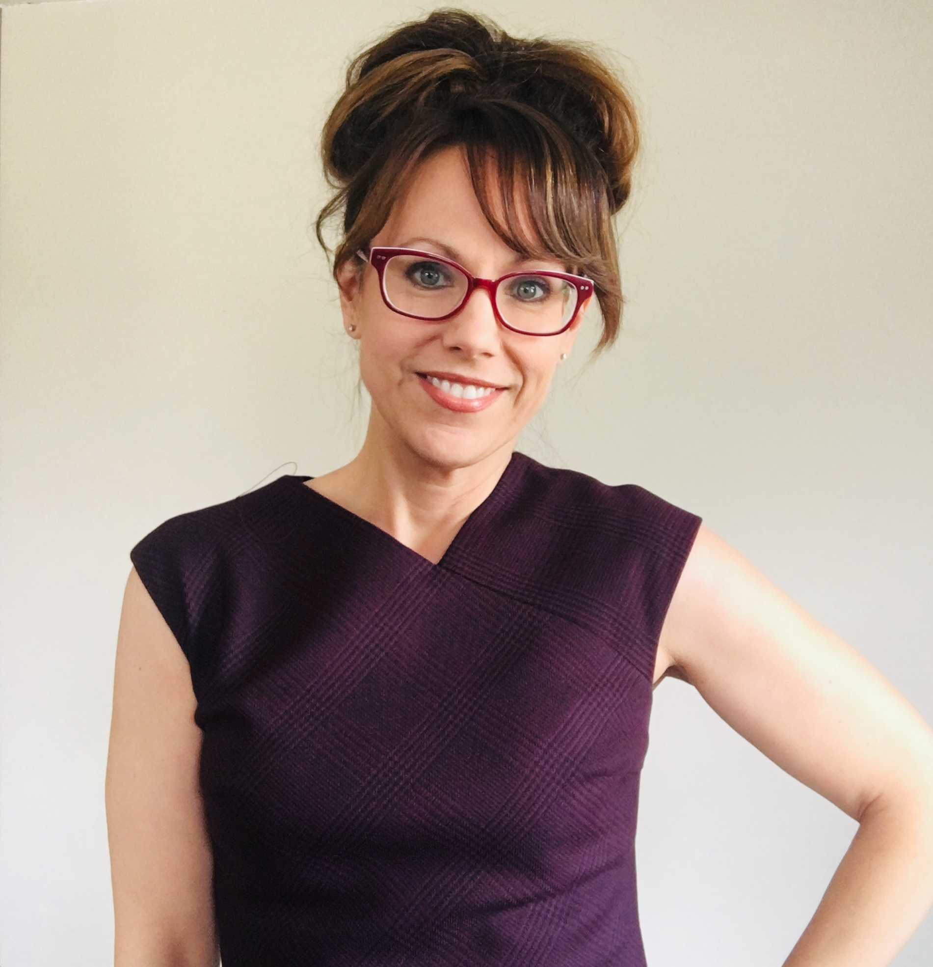 This is a head shot of Sherry Pagoto PhD taken on 1-6-19.